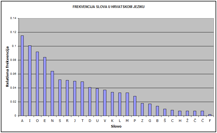 Croatian letter frequency